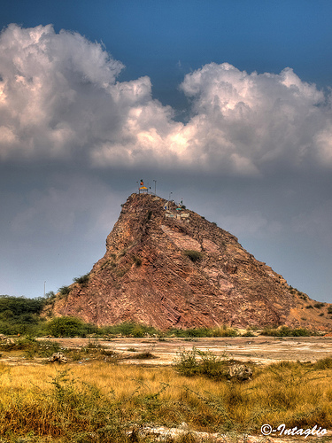 Pic of Sangla,Punjab,Pakistan